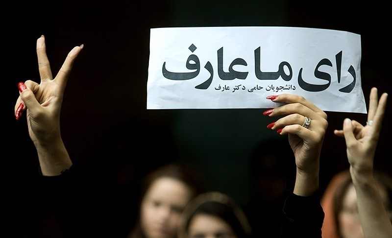 2016 Iranian election